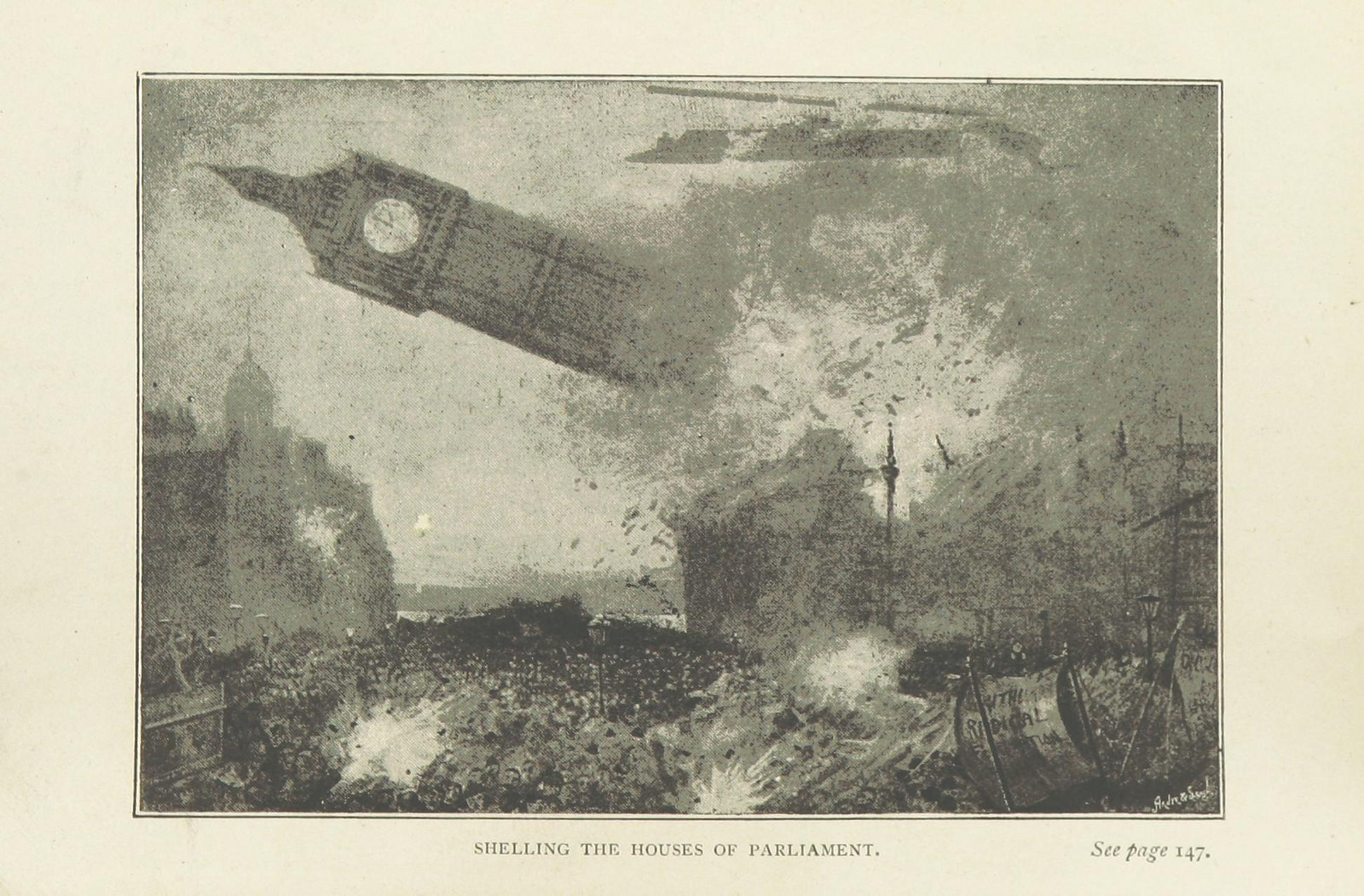 Shelling The Houses Of Parliament, Image taken from page 8 of 'Hartmann the Anarchist, etc. [A novel.]' Published 1892.